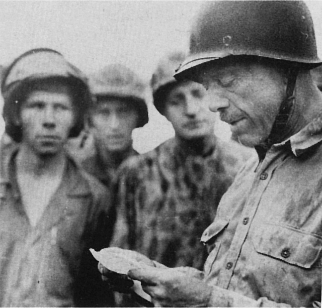 MajGen William H. Rupertus, Commanding General, 1st Marine Division, reads a message of congratulation after the capture of Airfield No. 2 at Cape Gloucester, New Britain.